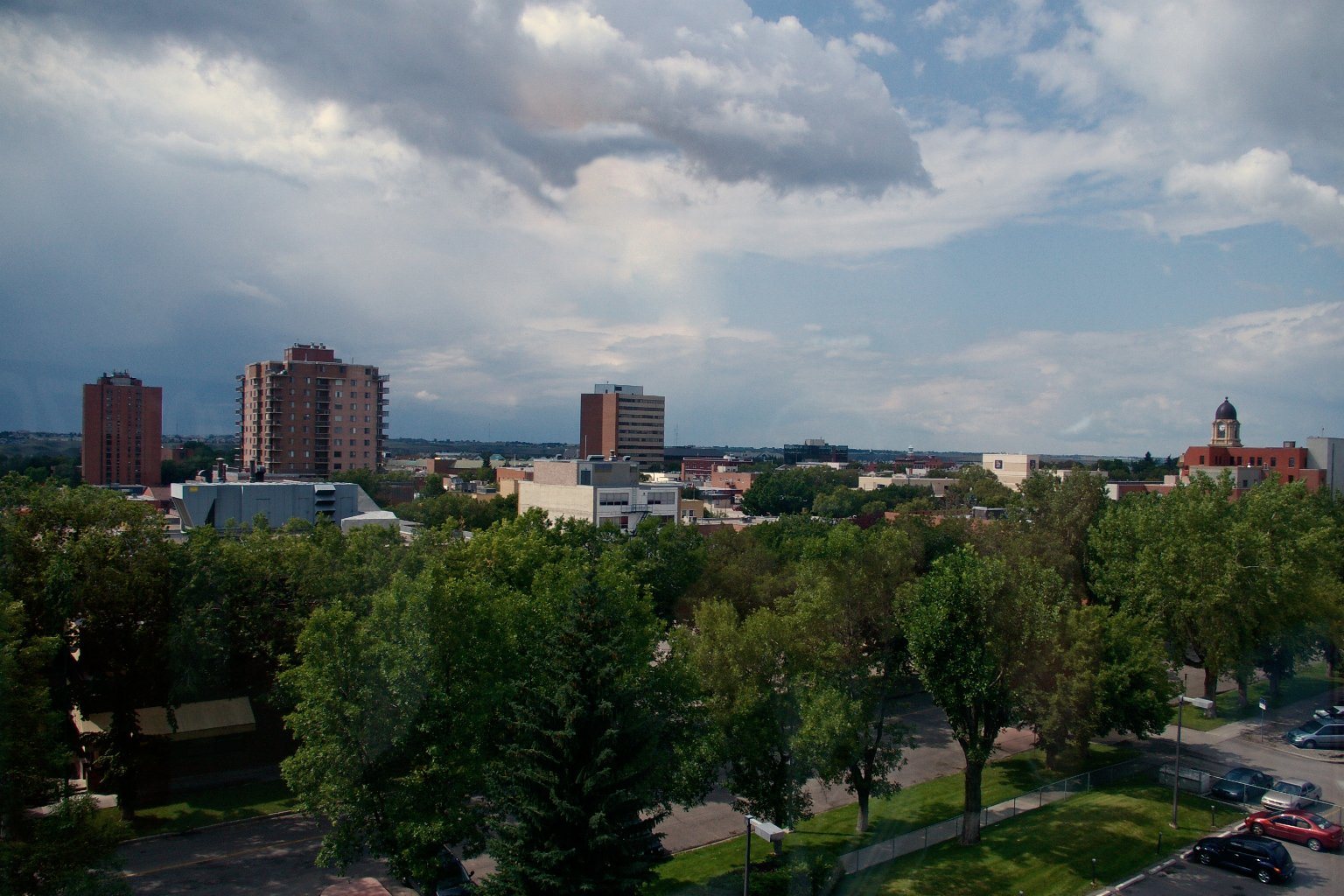 View of downtown Lethbridge facing northwest and taken from Halmrast Manor.